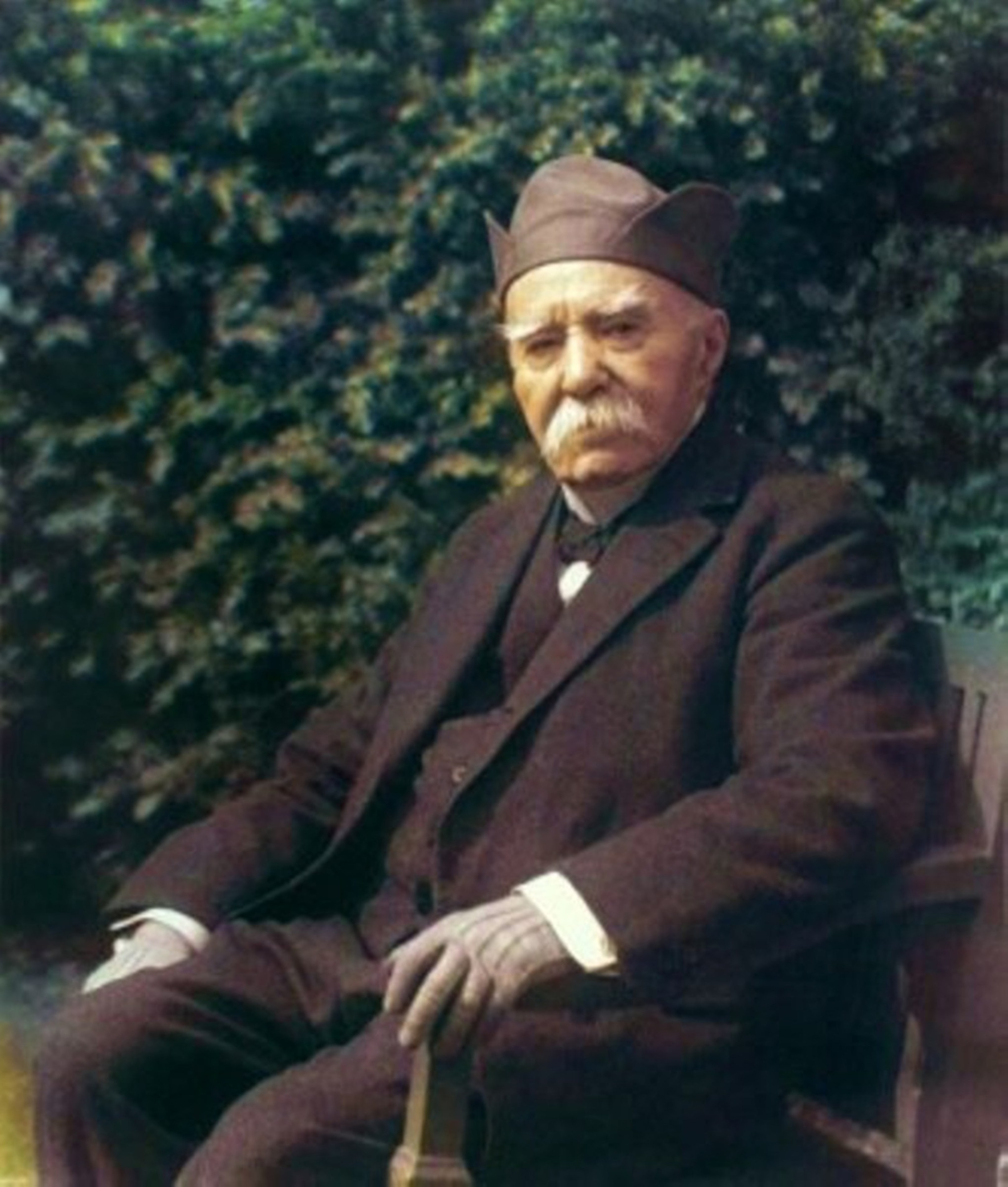 Photograph of Georges Clemenceau, born 28 September 1841 in Mouilleron-en-Pareds (department of Vendée) and died 24 November 1929 in Paris, is a French statesman, president of the Council from 1906 to 1909 and from 1917 to 1920.